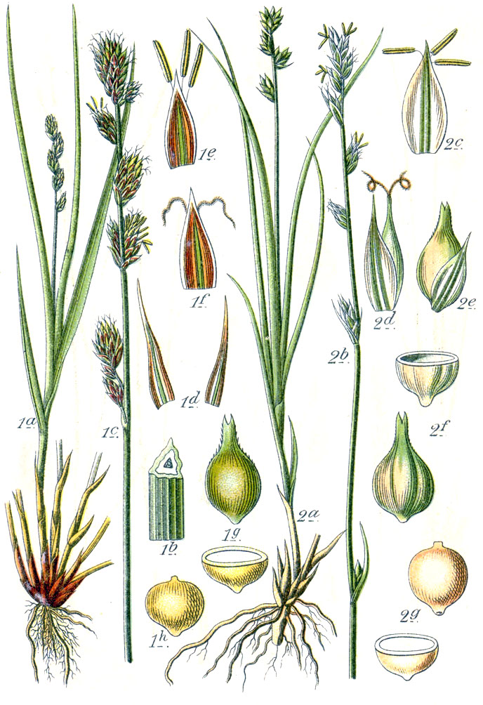 1. Carex muricata L. 2. Carex pairae F.W.Schultz, syn. Carex virens auct. Original Caption 1. Stachelköpfige Segge, Carex muricata 2. Grüne Segge, C. virens